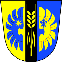 Kaňovice CoA